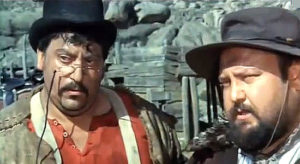 Tito Garcia and Cris Huerta as the Fuller brothers in Sabata the Killer (1970)